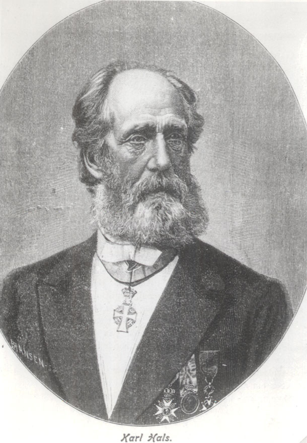 Artist: unknown Date/place: unknown Subject: Karl Hals Medium: Liturgraphic Notes: none Persistent URL: Original belongs to University of Bergen Original reference: ubbf011